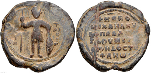 BYZANTINE. Michael Kontostephanos. Kouropalates and Doux of Antioch, circa 1055. PB Seal (32mm, 23.98 g, 12h). St. Demetrios standing facing; to left, [Δ/Є]/M/H, to right, T/PI/ω/C / +KЄR Θ/ MIXAHΛ K[OU]/POΠAΛAT[...] /S ΔOVKI [ANT]/ KONΔOCTЄ/ΦANω. DOC -; BLS - (but cf. 5.9.4, citing a seal of Michael as Kouropalates and Doux published by Likhachev); Jordanov -. Near VF.